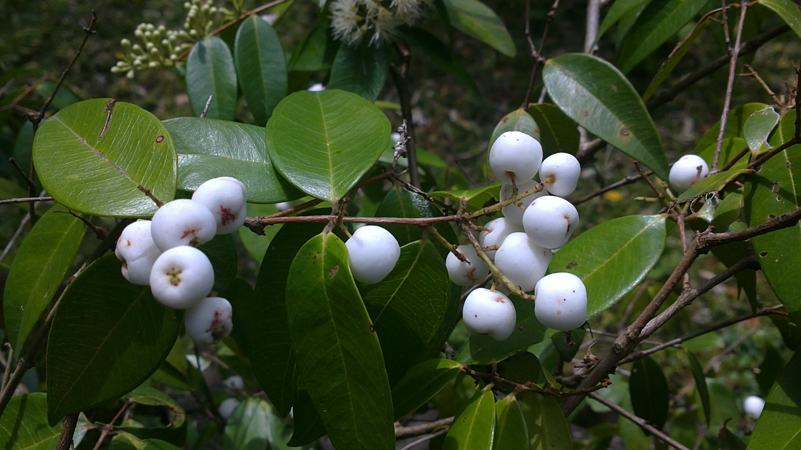 Poochakkuttikkaaya